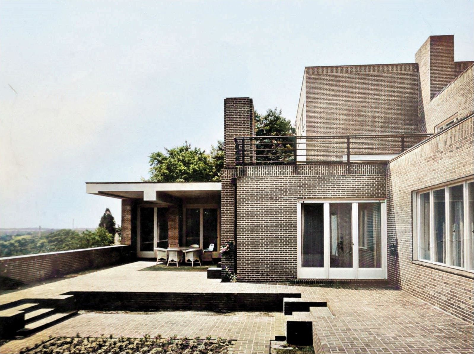 Photo of Villa Wolf in Guben shortly after completion, patio.